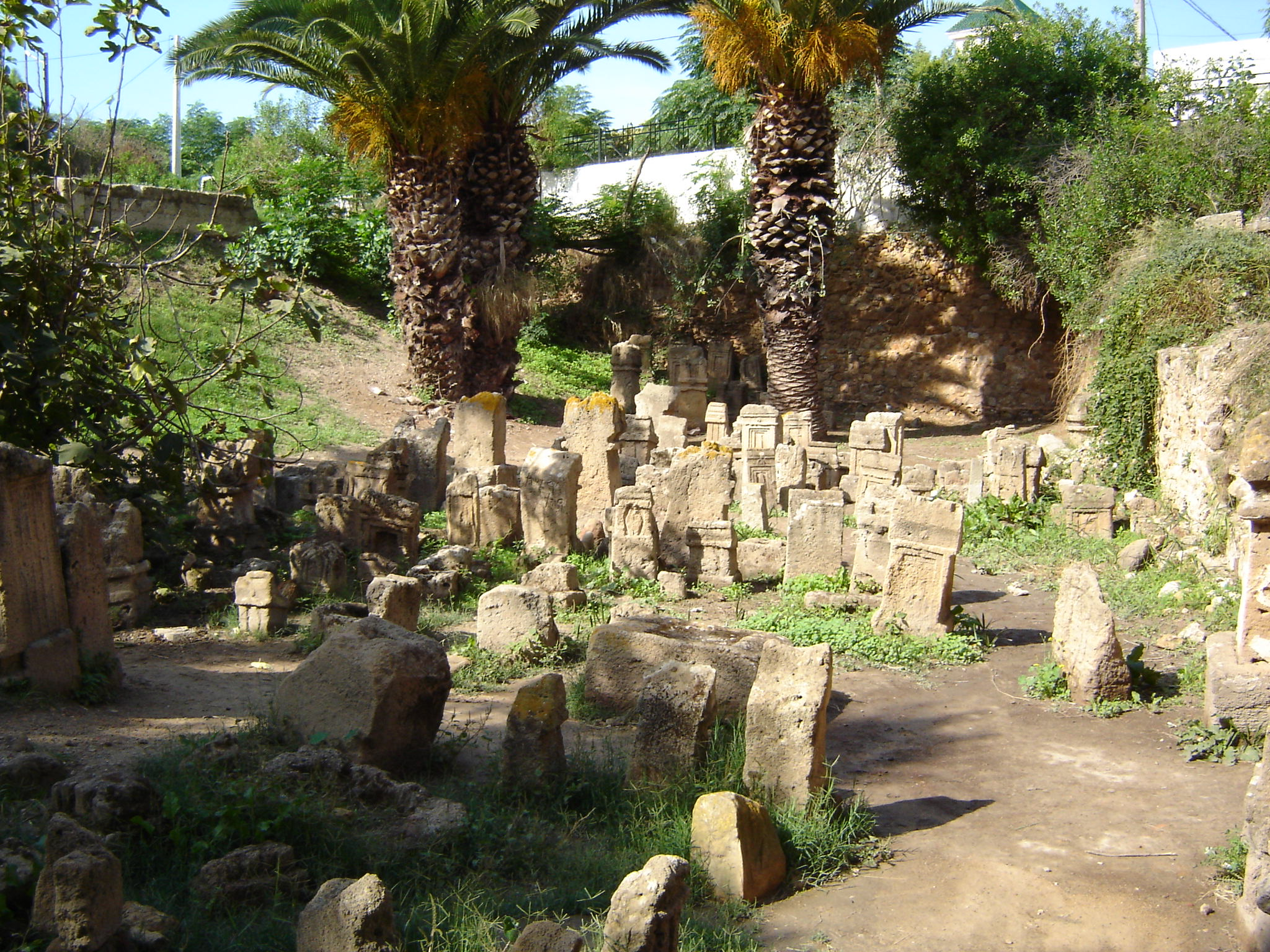 Stelae on the Tophet of Carthage. Source: Self-made, October 2004 Author: BishkekRocks